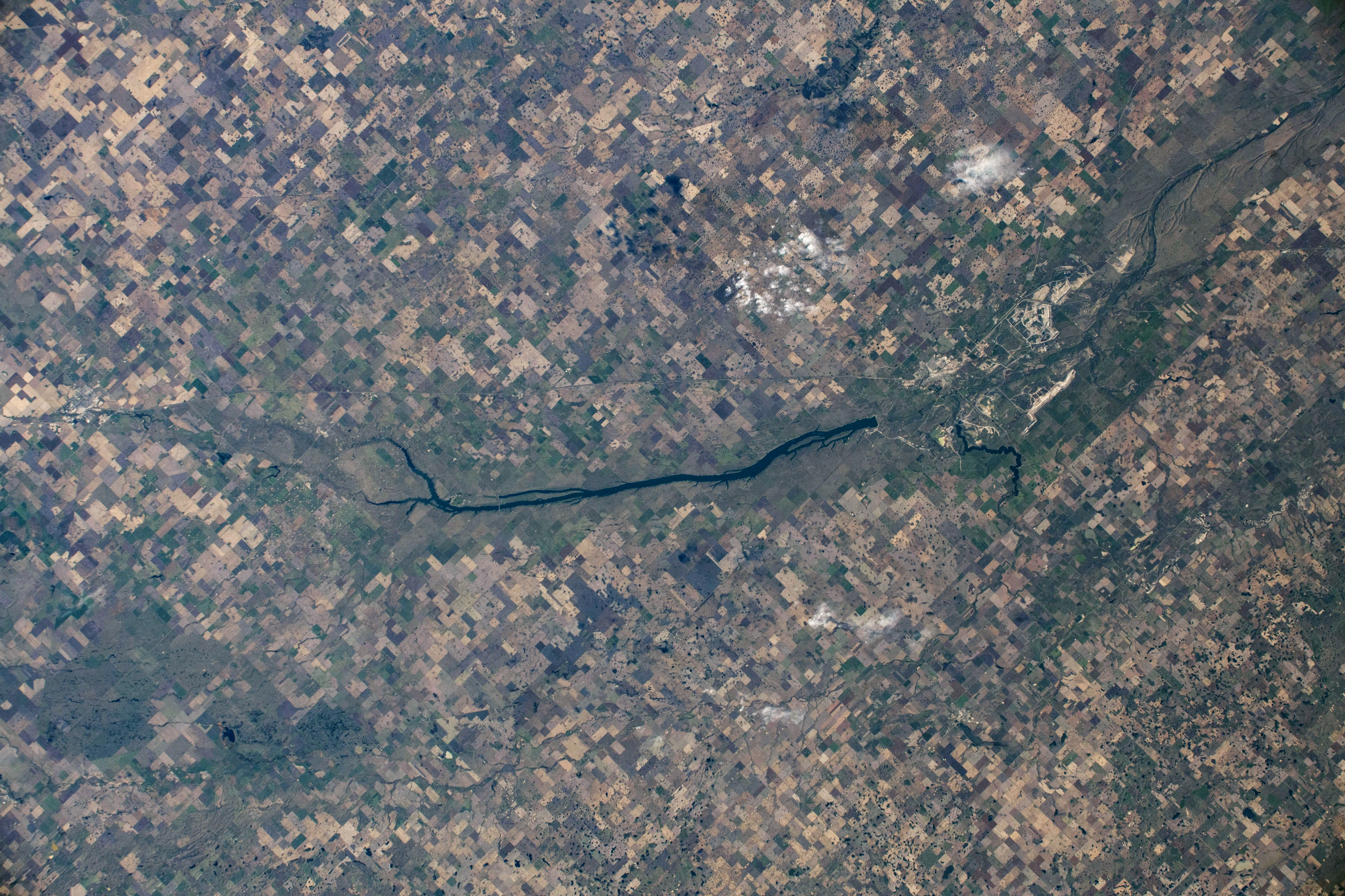 McDonald Lake in Saskatchewan, Canada, is pictured as the International Space Station orbited 254 miles above North America. The coal-mining city of Estevan, at the lake's southeast end surrounded by prairies and farms, is 10 miles north of the United States border of North Dakota.